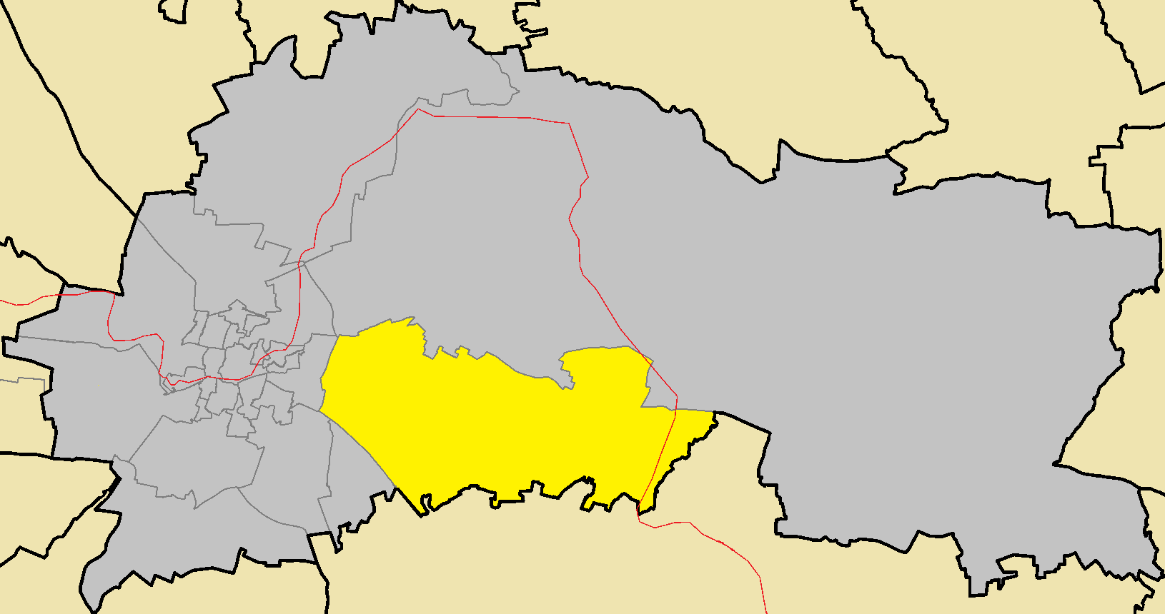 Pallouriotissa in Nicosia Municipality (de jure).